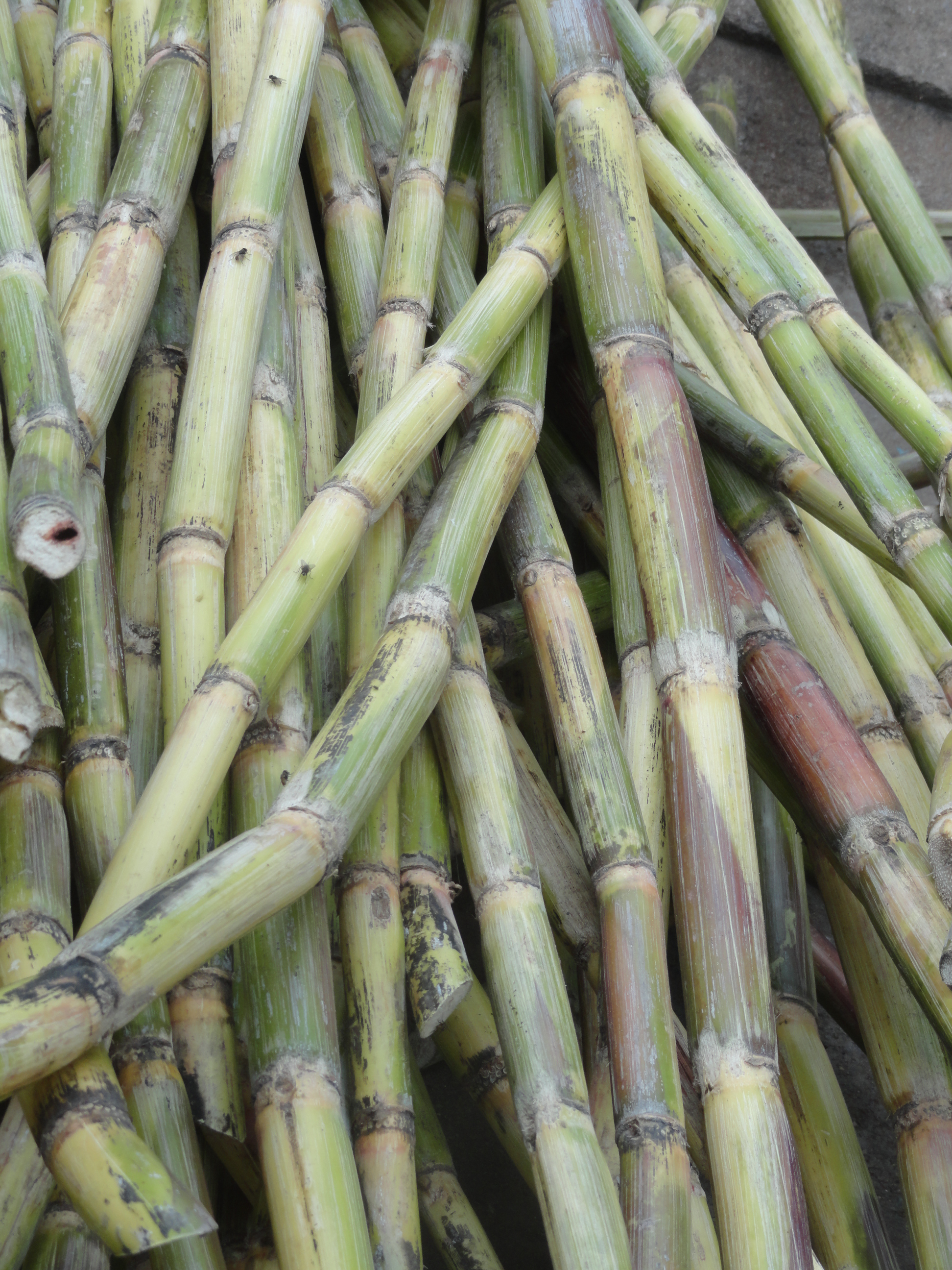 చెరకు గడలు